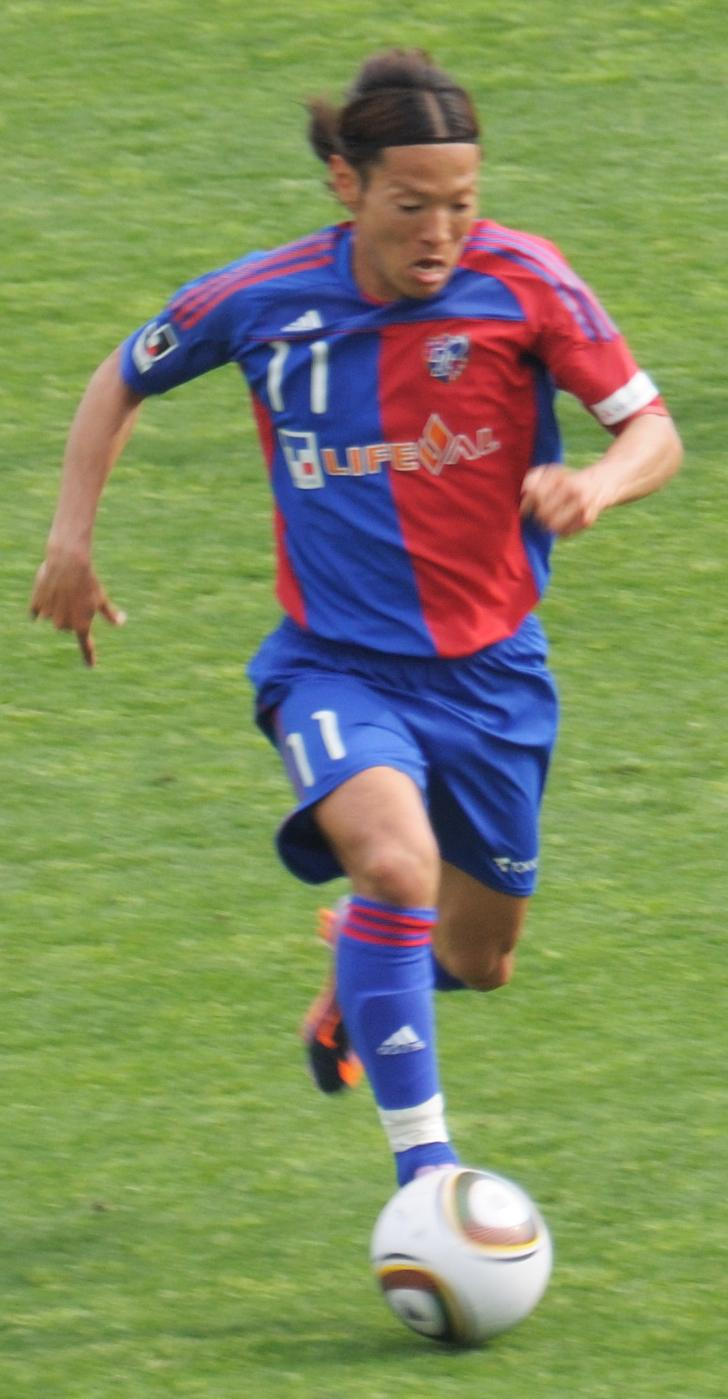 Tatsuya Suzuki cropped from DSC_4402